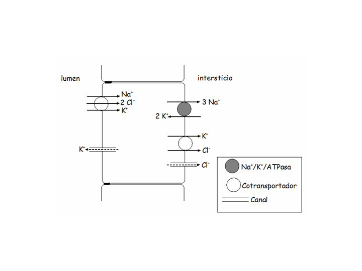 Mechanism of transport of sodium, potassium and choride in the thick ascending limb of Henle´s loop